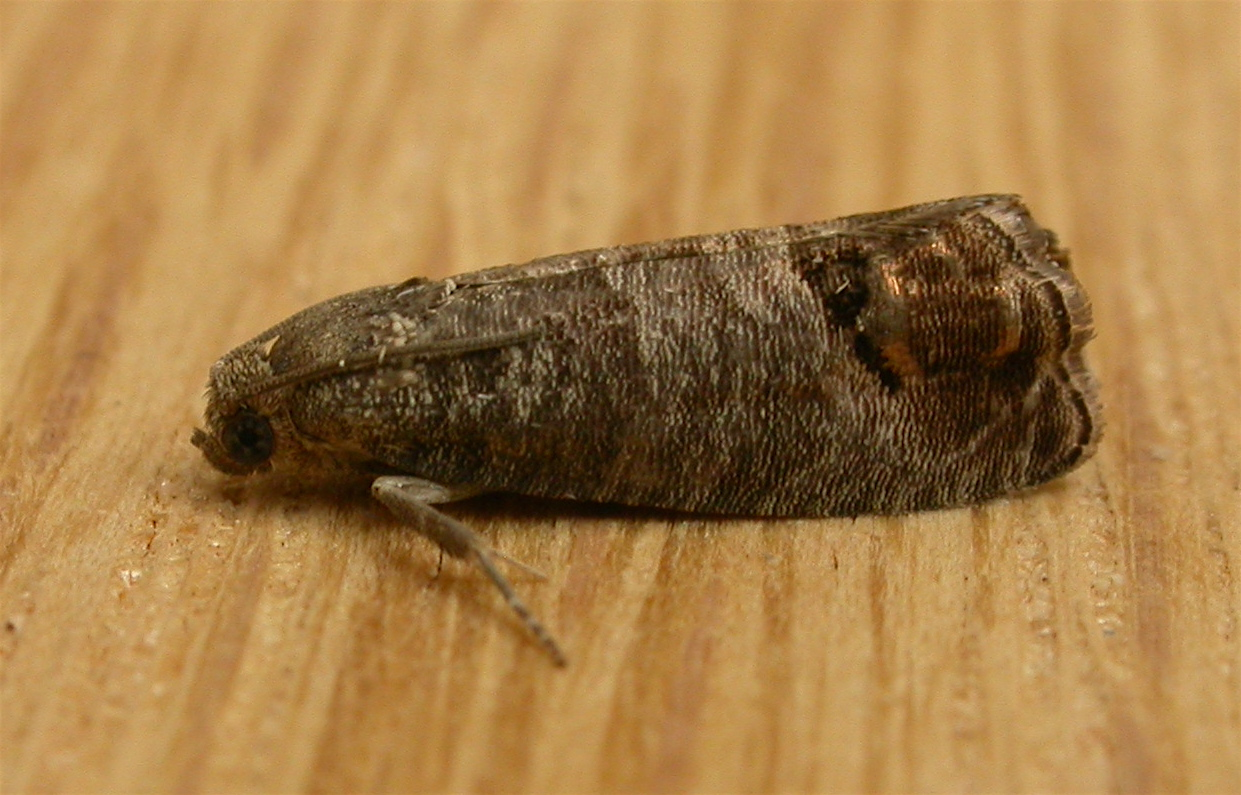 A Cydia pomonella in Australia.